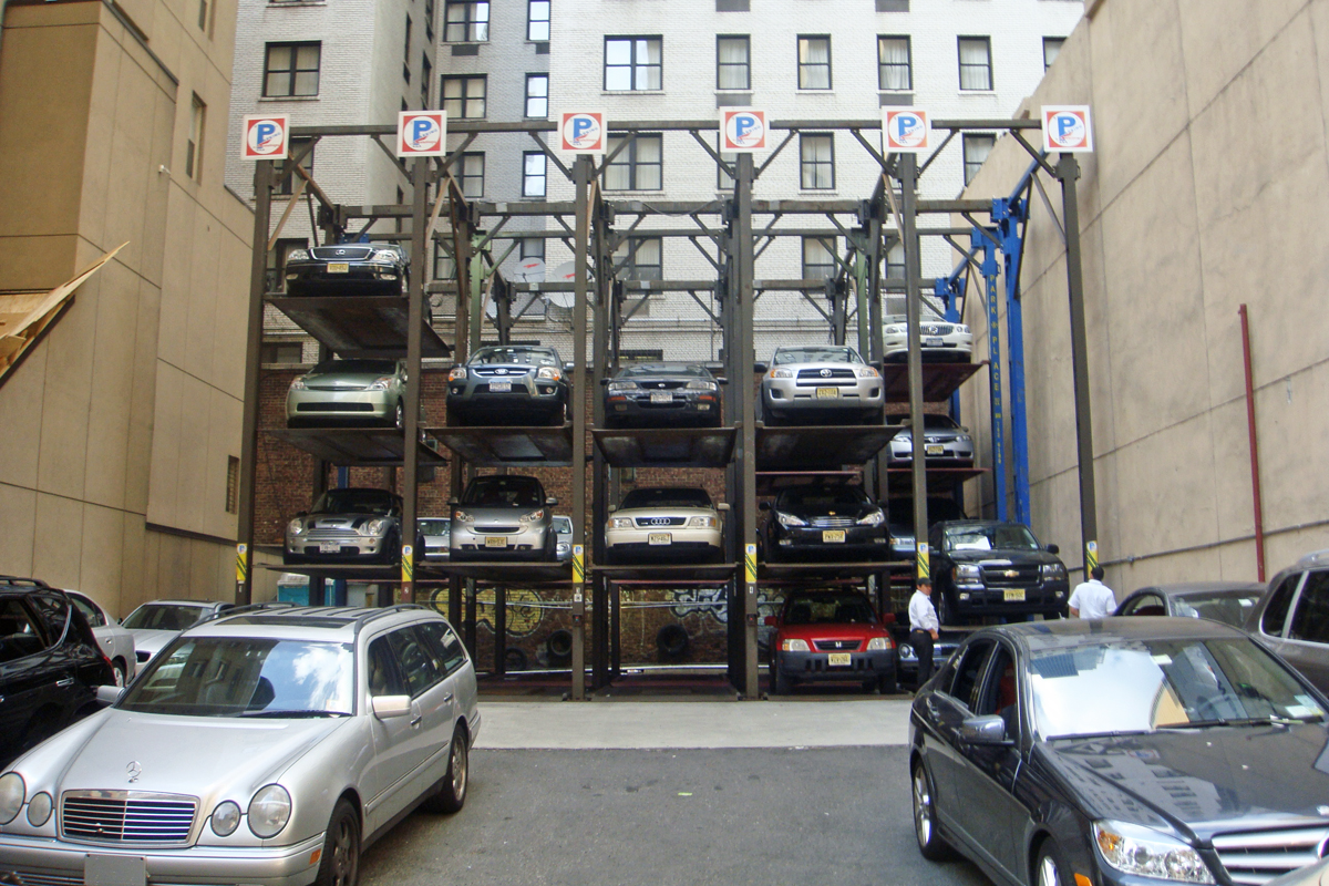 Multiple level stack parking lot in the Broadway District, New York City